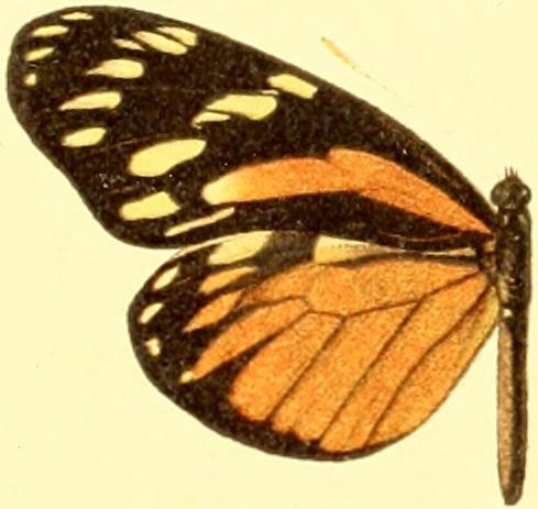 Plate from The Macrolepidoptera of the World. Vol. 5. Pieridae Dismorphiinae: Patia cordillera